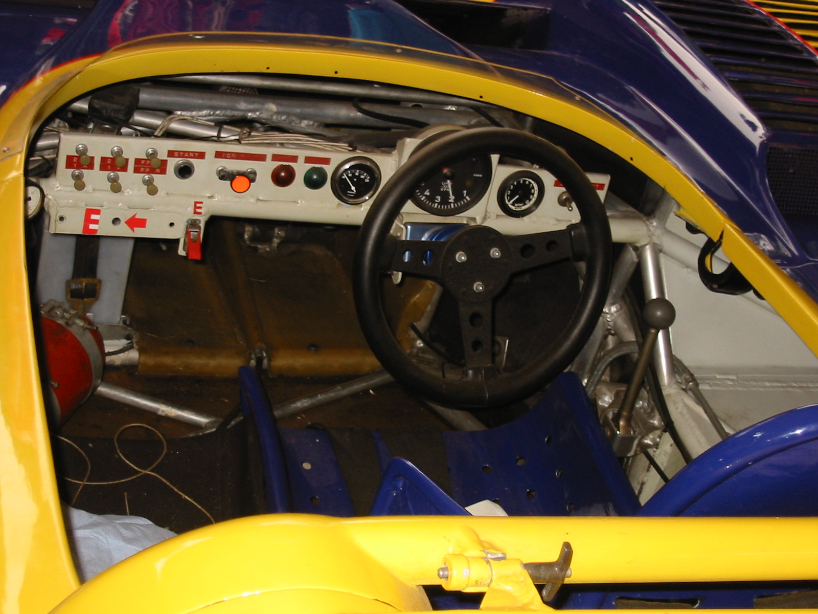 Porsche 917/30 CanAm Spyder cockpit